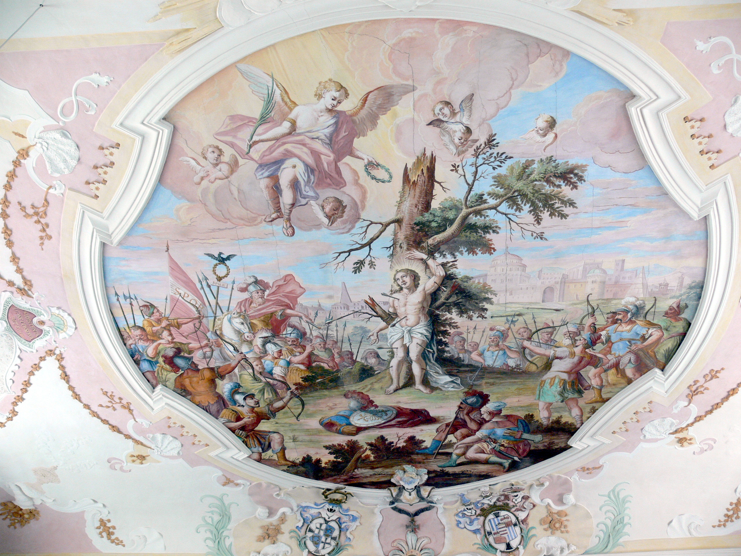 Wolframs-Eschenbach. Cemetery church St.Sebastian. Martyrdom of Saint Sebastian ( 1741 ) by Johann Michael Zinck of Neresheim